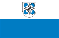 Flag of Aegviidu, Estonia